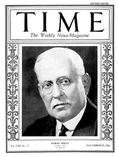 Time magazine, Volume 8 Issue 22, November 29, 1926. Front cover is a photograph of Samuel Insull.